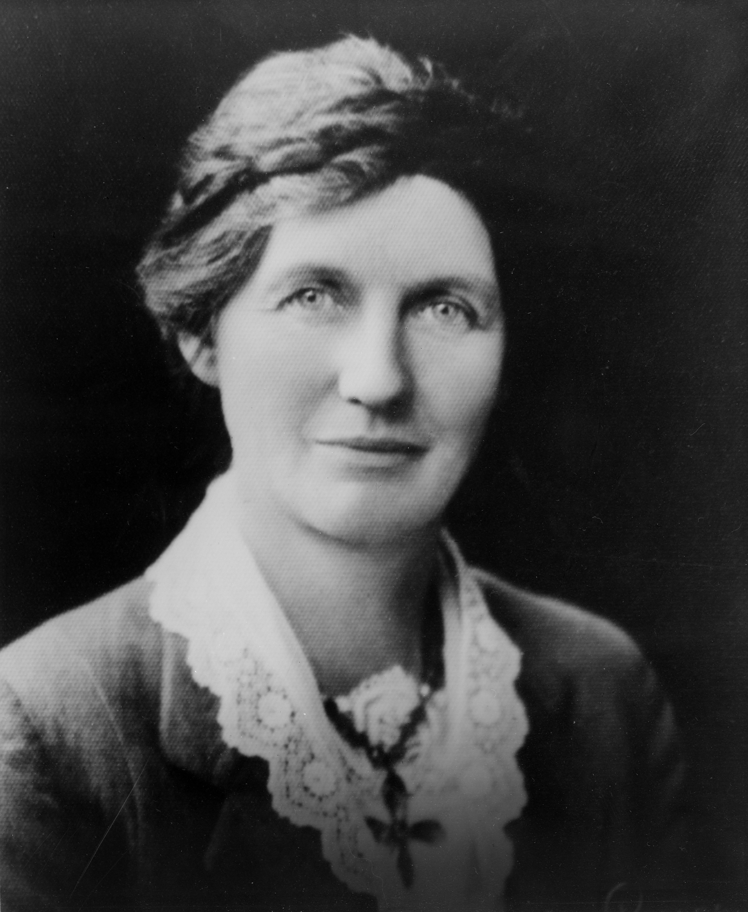 Elizabeth Reid McCombs, possibly while she was New Zealand's first woman Member of Parliament. Taken by an unknown photographer circa 1933.